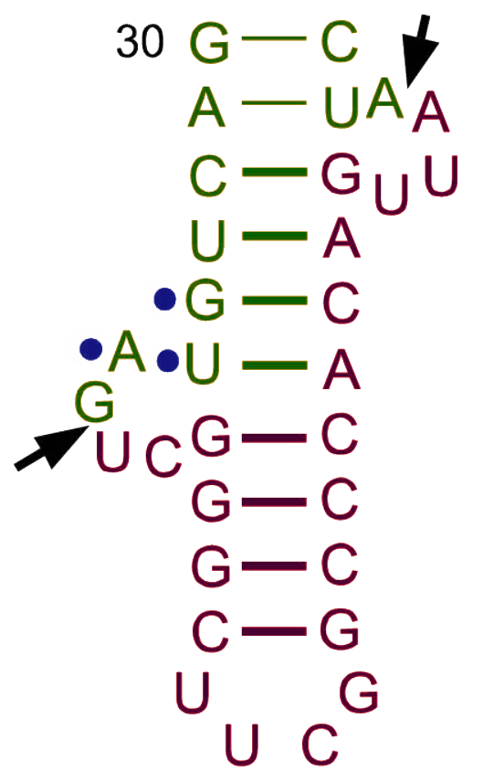 Bulge-helix-bulge (BHB) motive of the tRNA intron splicing. Inron is colored red. Blue dots mark the codon nucleotides. Black arrows indicate the place of the nuclease cleavage. Cropped and colored part of the Figure 2 of the article Markus Englert & Hildburg Beier (2005). "Plant tRNA ligases are multifunctional enzymes that have diverged in sequence and substrate specificity from RNA ligases of other phylogenetic origins". Nucleic acids research 33 (1): 388–399. PMID 15653639. Info about licence here - NAR OA info